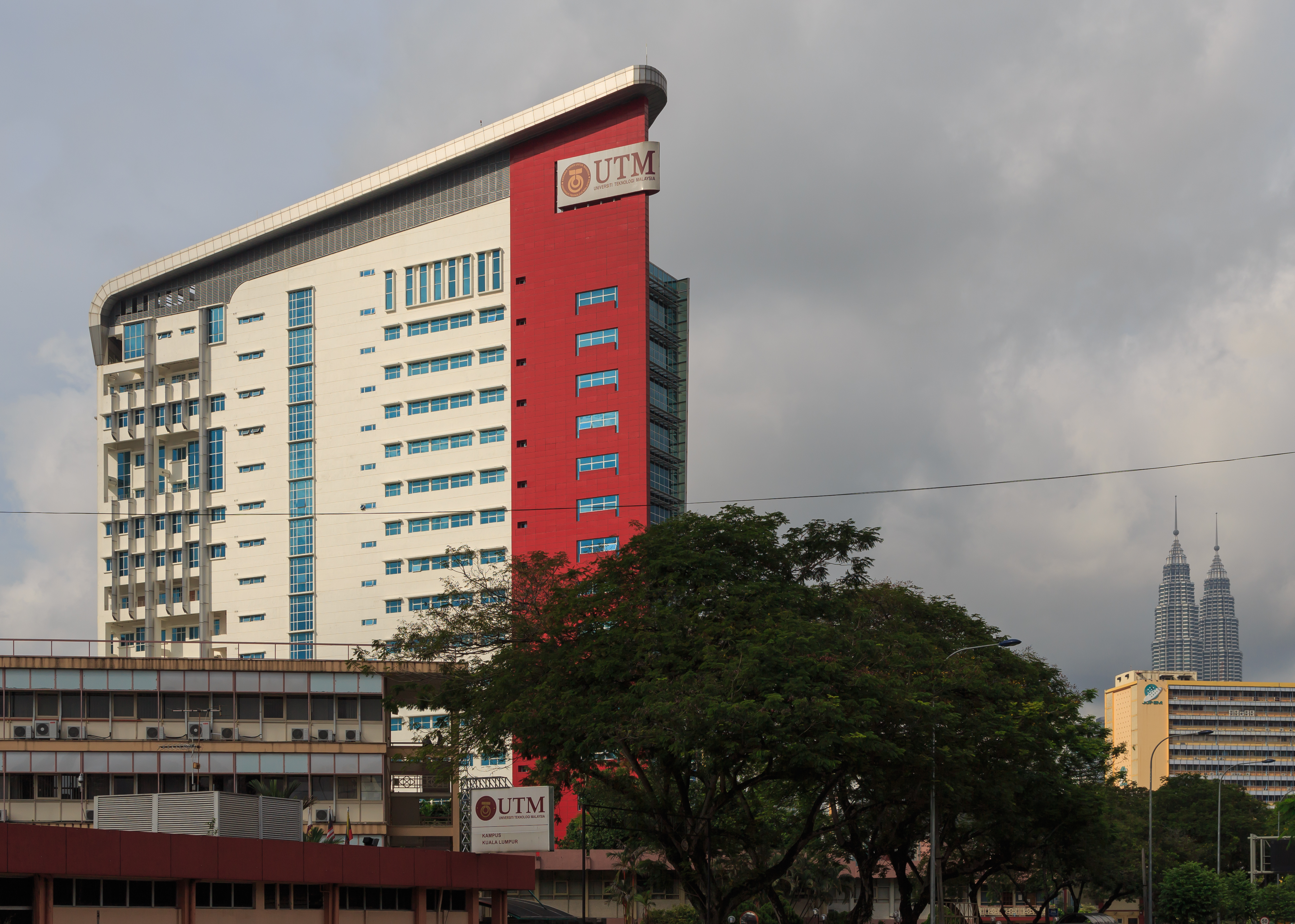 Kuala Lumpur, Malaysia: Universiti Teknologi Malaysia, Campus Kuala Lumpur